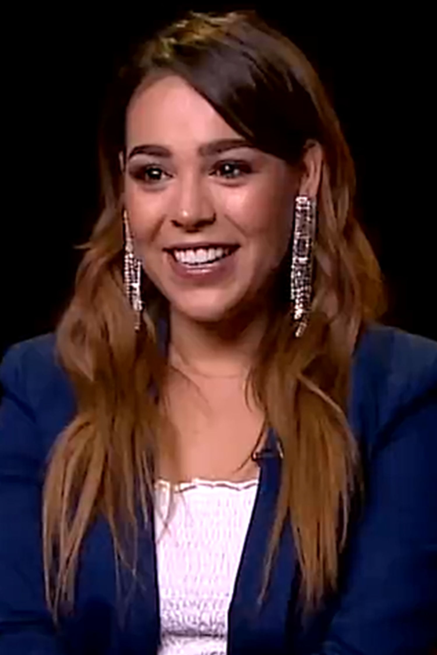 Danna Paola during an interview on the serie Élite, on September 23, 2018.